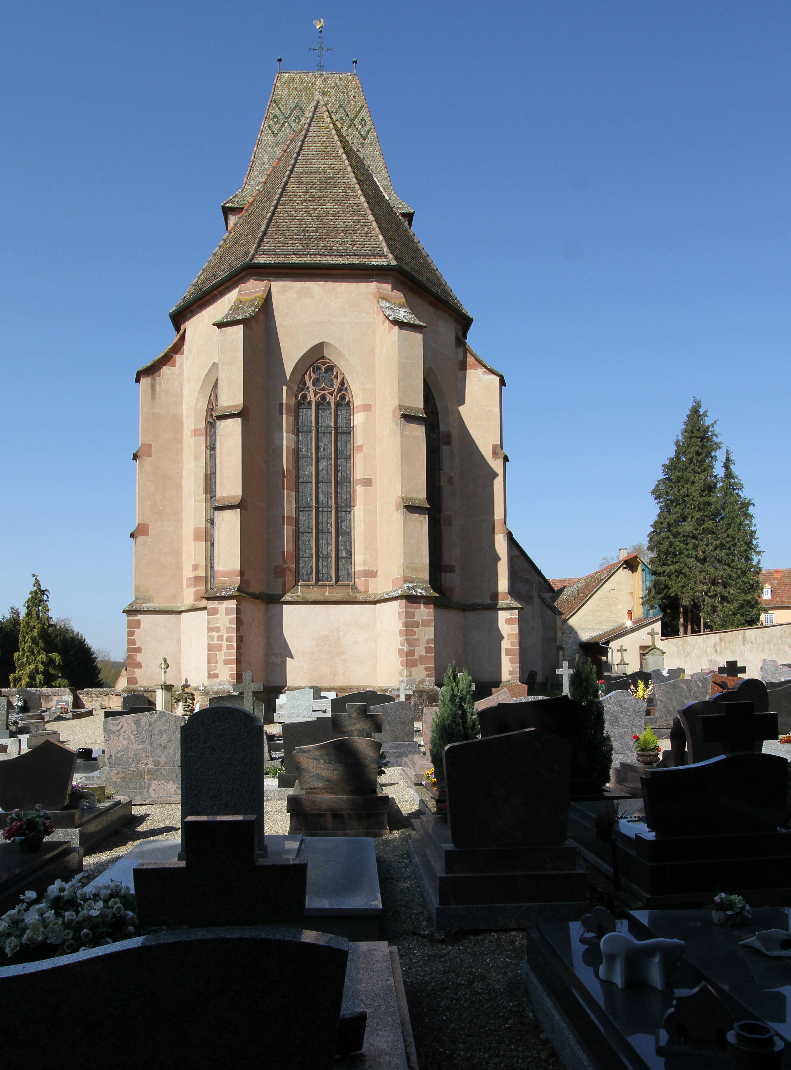 Church of Saint Walburg in Walbourg